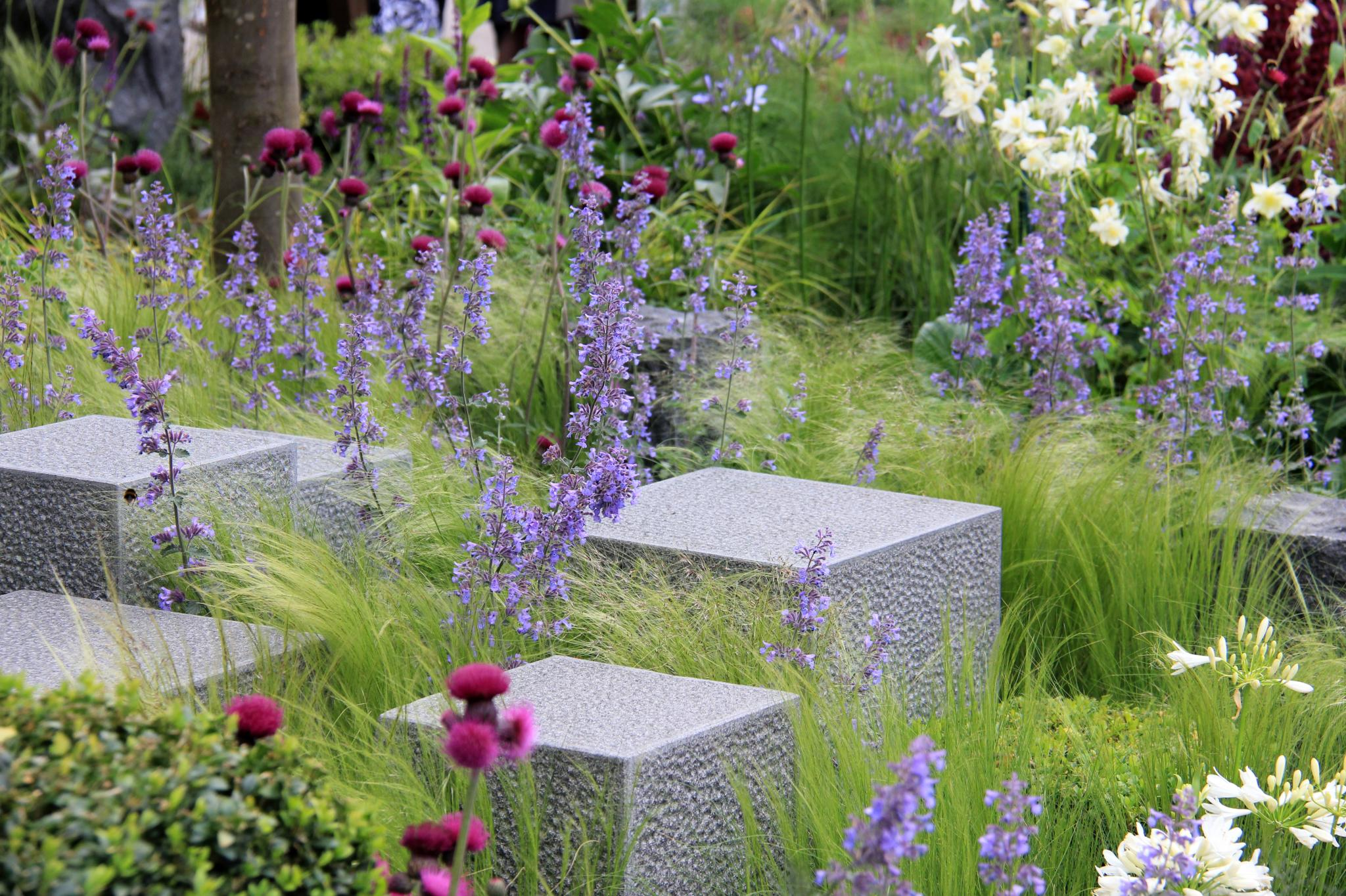 Hope on the Horizon - Help for Heroes sponsored by The Havisham Trust Award: Best Show Garden - People's Choice Award: Silver Gilt Medal Designed by: Matt Keightley Built by: Farr & Roberts Sponsored by: David Brownlow Hope on the Horizon is a contemplative space that represents the process which injured servicemen and women go through on the road to recovery, designed to support Help for Heroes. Granite blocks symbolise the soldiers’ physical wellbeing and planting reflects their mental wellbeing. The journey starts with a rough, unfinished and overgrown area, evolving through the garden to conclude with a perfectly structured section. An avenue of hornbeams draws attention to a sculpture resembling a horizon, a reminder to the soldiers that they all have a bright future ahead. As well as areas to relax and reflect, the garden also offers focal points along the journey.